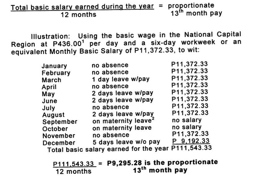 Computation of a Hypothetical 13th Month Pay